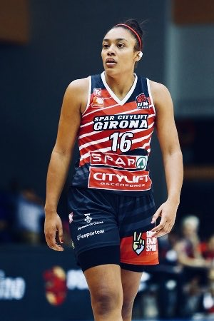 Helena Oma in a game